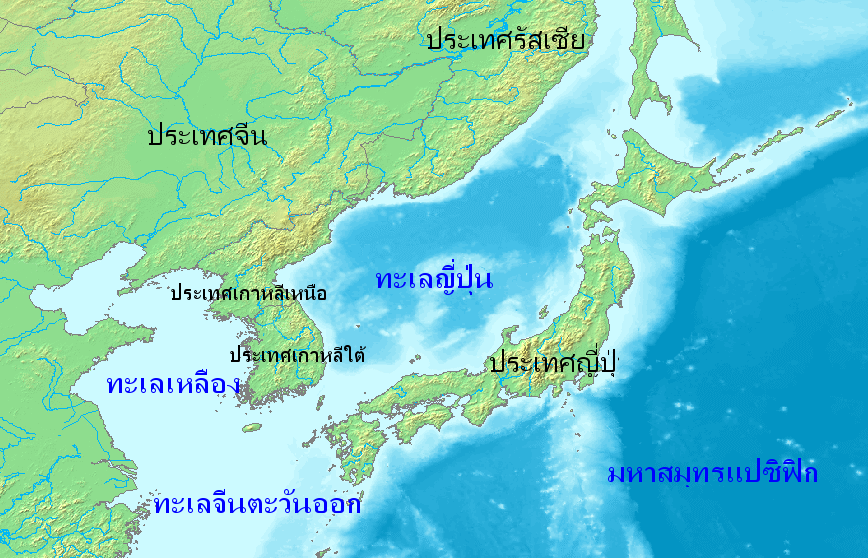 Map of the Sea of Japan in Thai